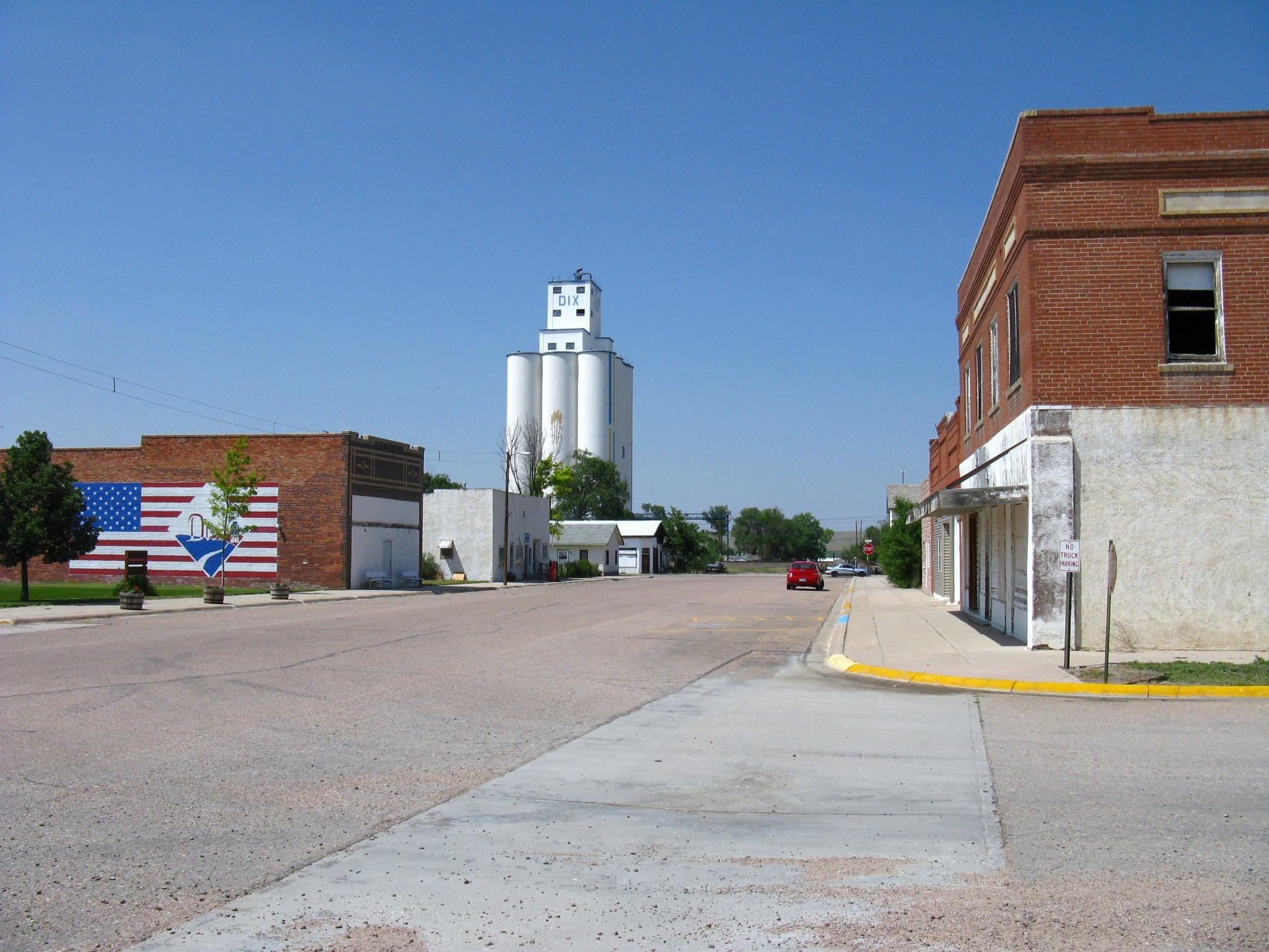 Myrtle St looking towards Lincoln Hwy in Dix, Nebraska looking north towards US 30 and the Union Pacific Main line.